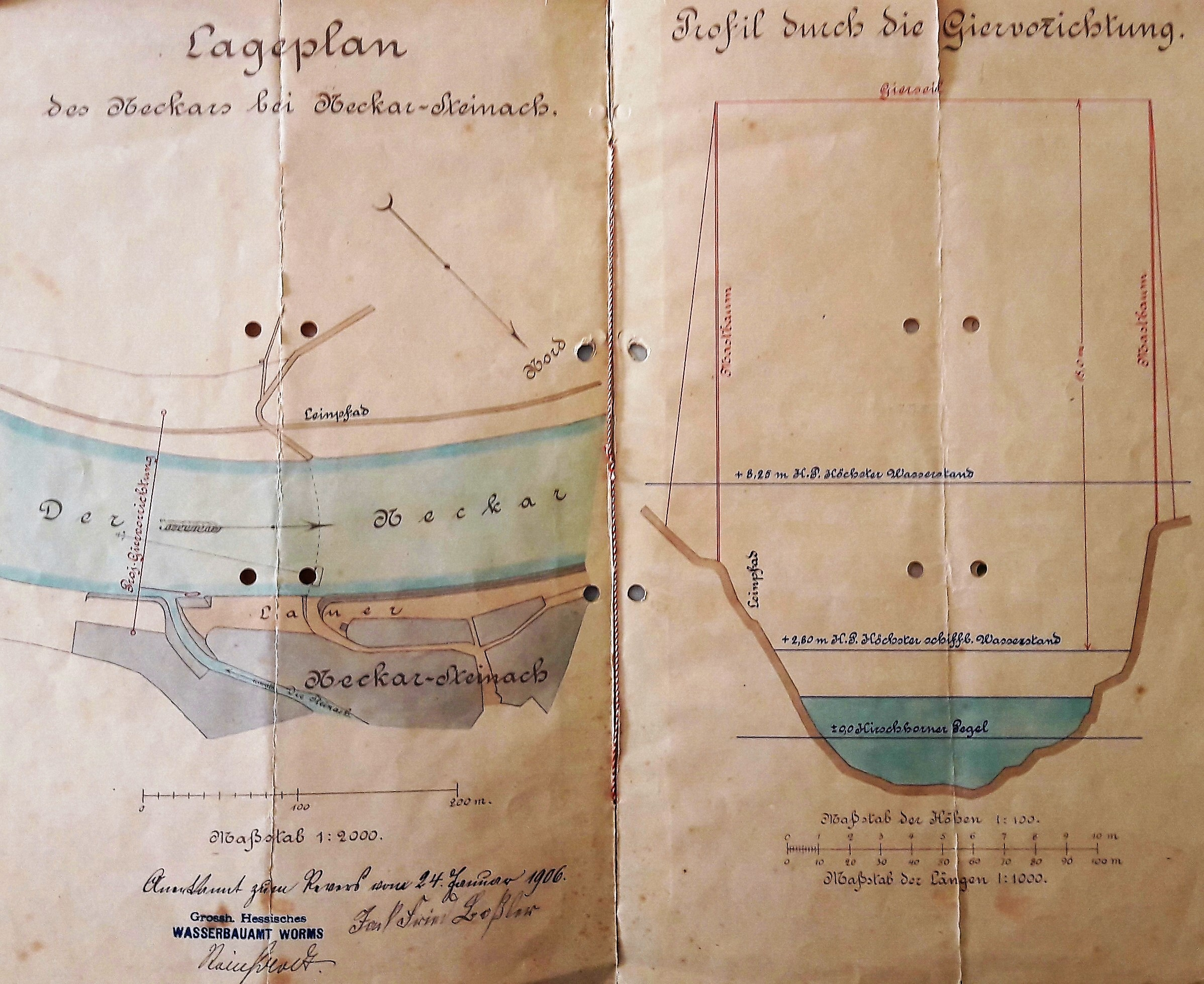 Genehmigung der Fähranlage durch das Wasserbauamt in Worms.